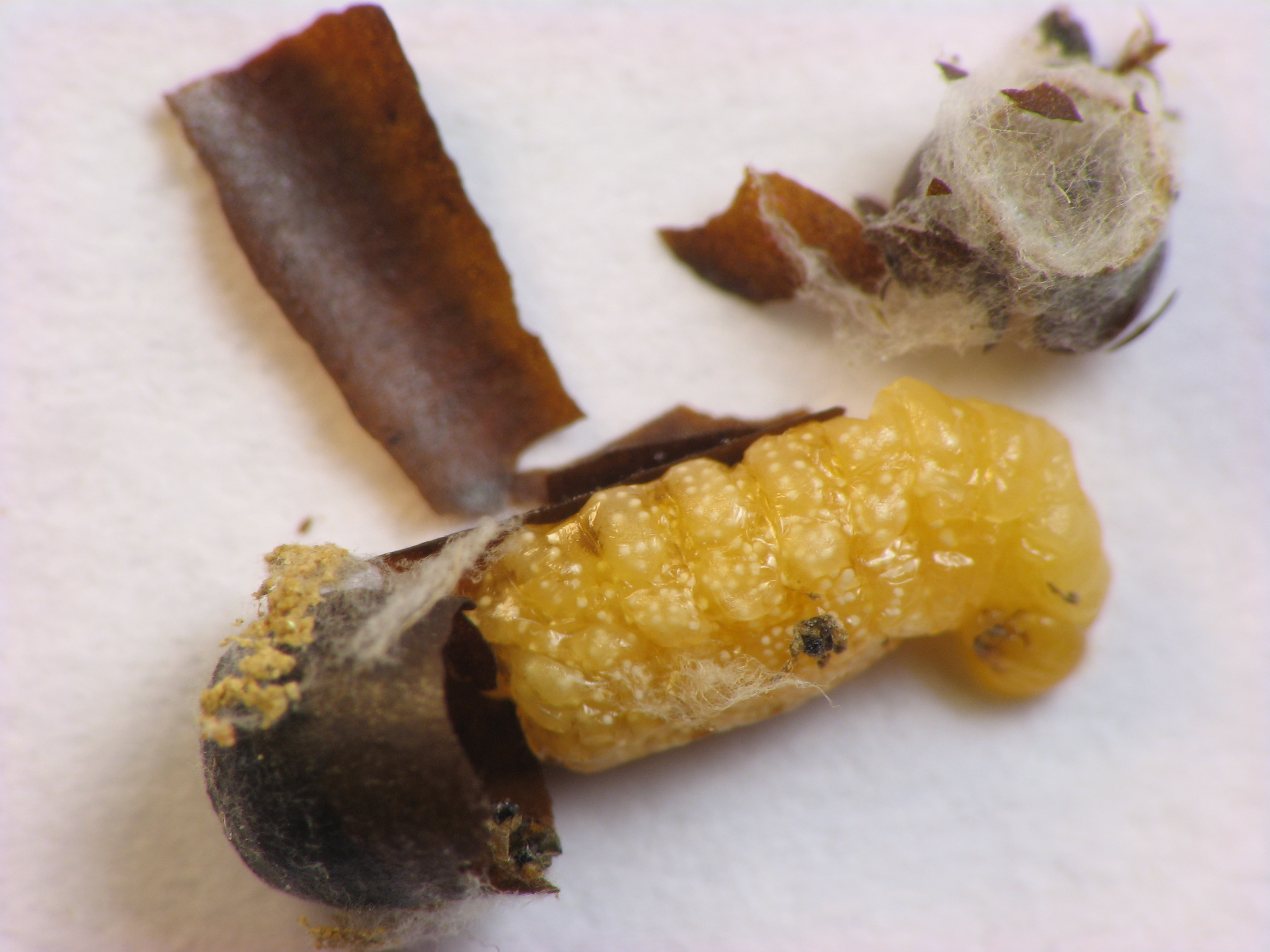 Larva of square headed wasp, Trypoxylon collinum. Size: 7 mm fully stretched. Willow Grove, Montgomery County, Pennsylvania, USA.